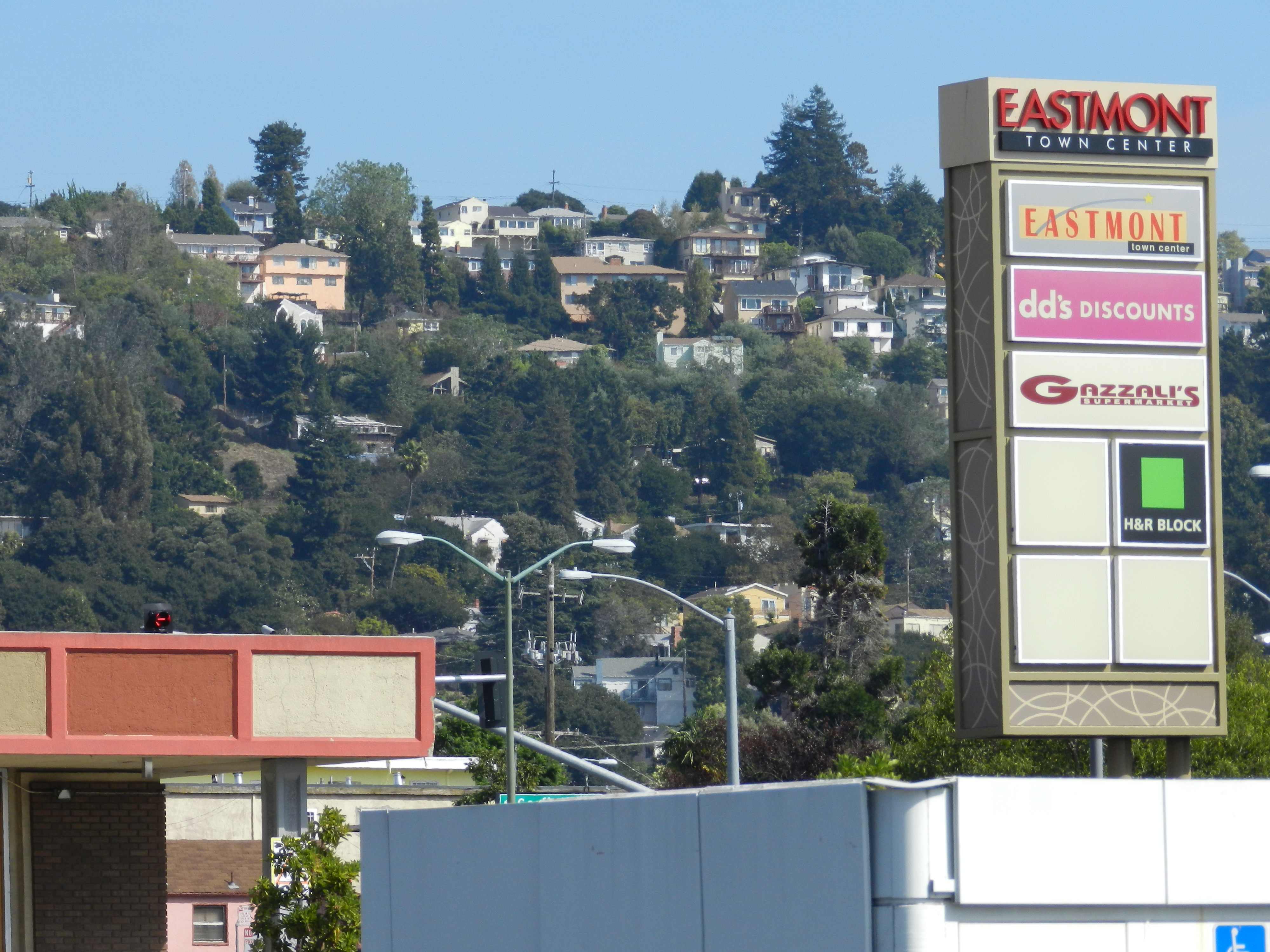 signage, Eastmont Town Center, Oakland, California